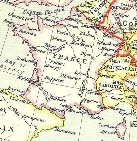 Kingdom of France in 1815